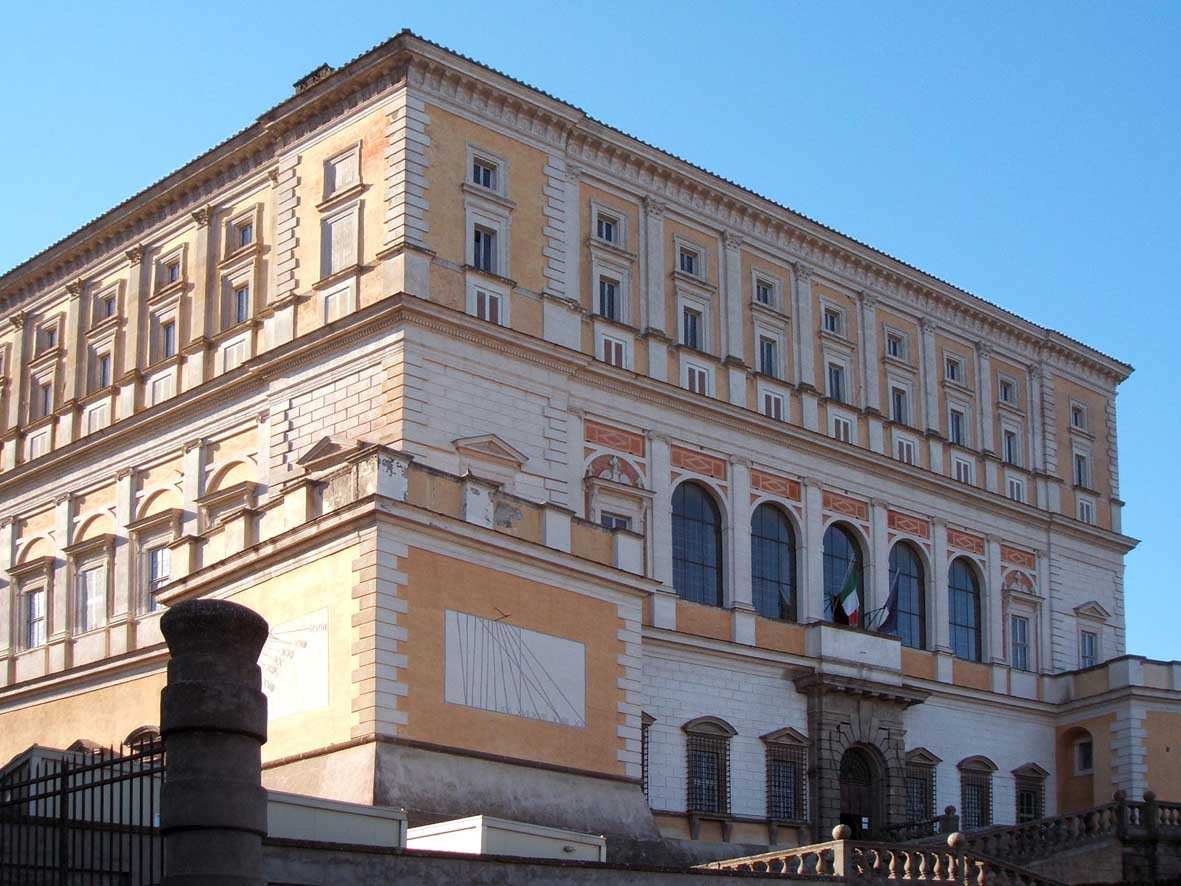 Villa Farnese in Caprarola, Italy.